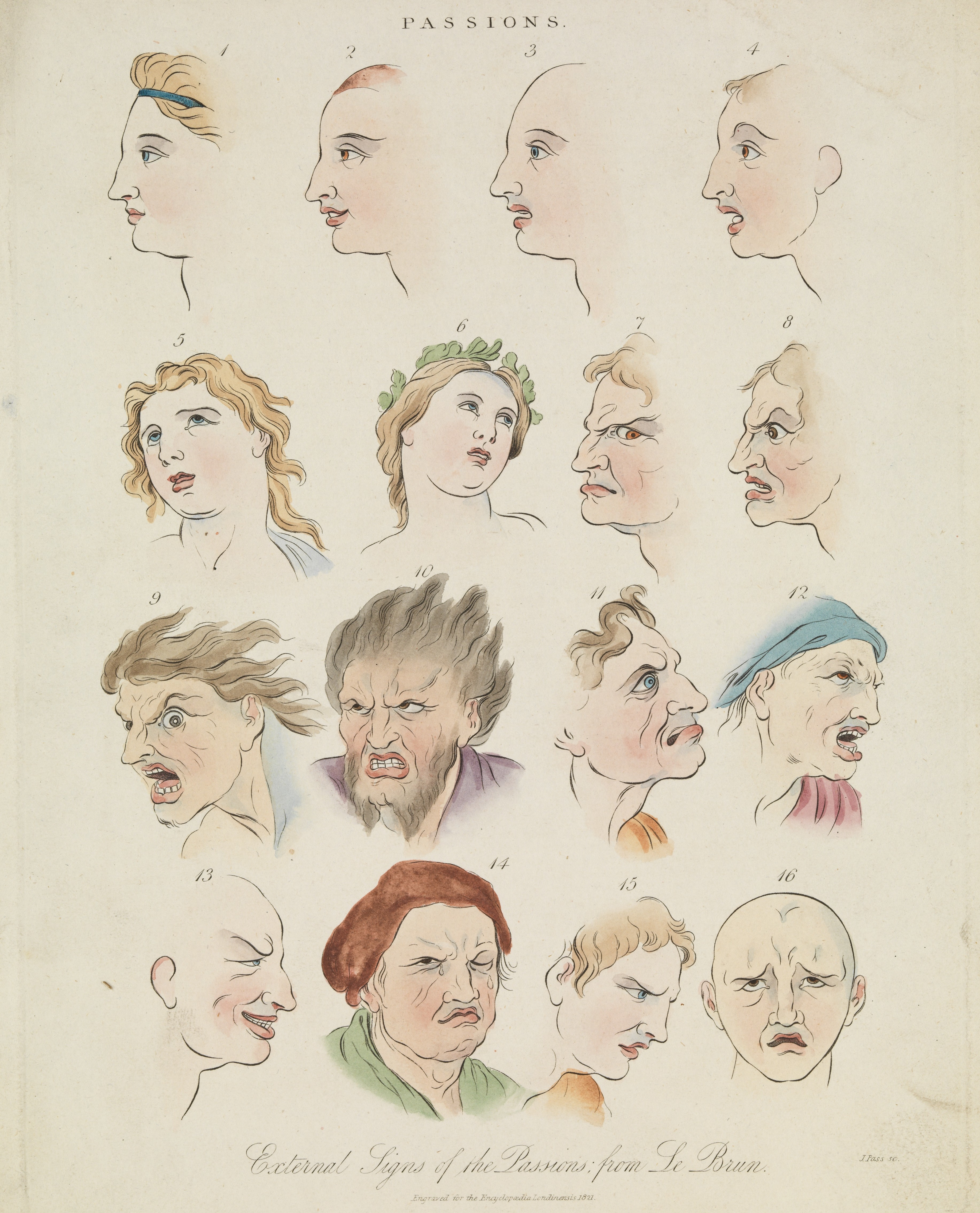 Sixteen faces expressing the human passions. Coloured engraving by J. Pass, 1821, after C. Le Brun. Wellcome Images Keywords: Charles Le Brun; J. Pass